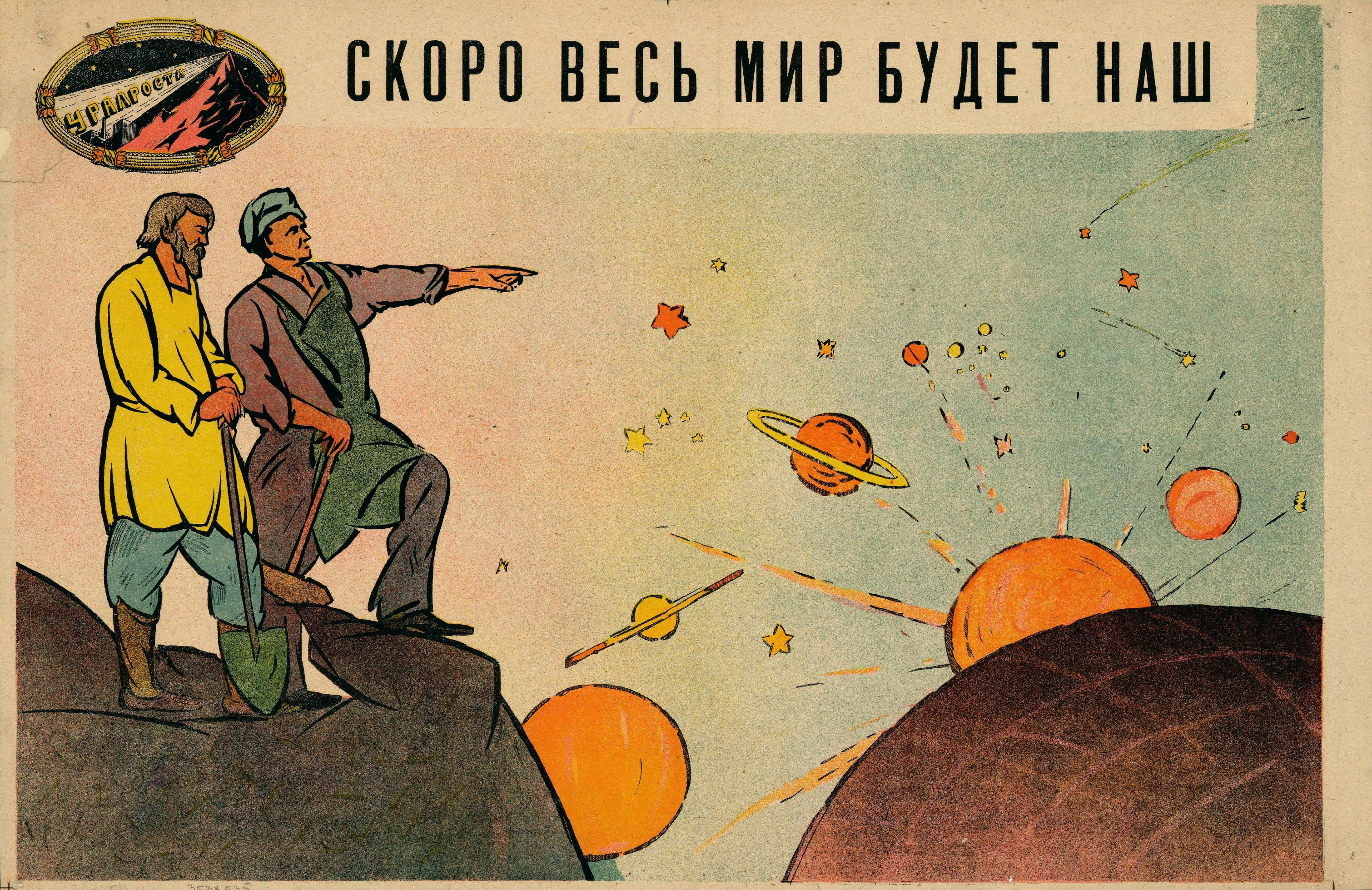 Poster «Soon the whole world will be ours». [Yekaterinburg] : Ural department of ROSTA, [1920]. Color lithography, 1 leaf, 35×53 cm